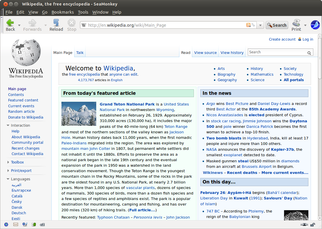 The SeaMonkey browser version 2.16 running on Ubuntu 12.04 LTS showing the English Wikipedia main page in February 26, 2013.